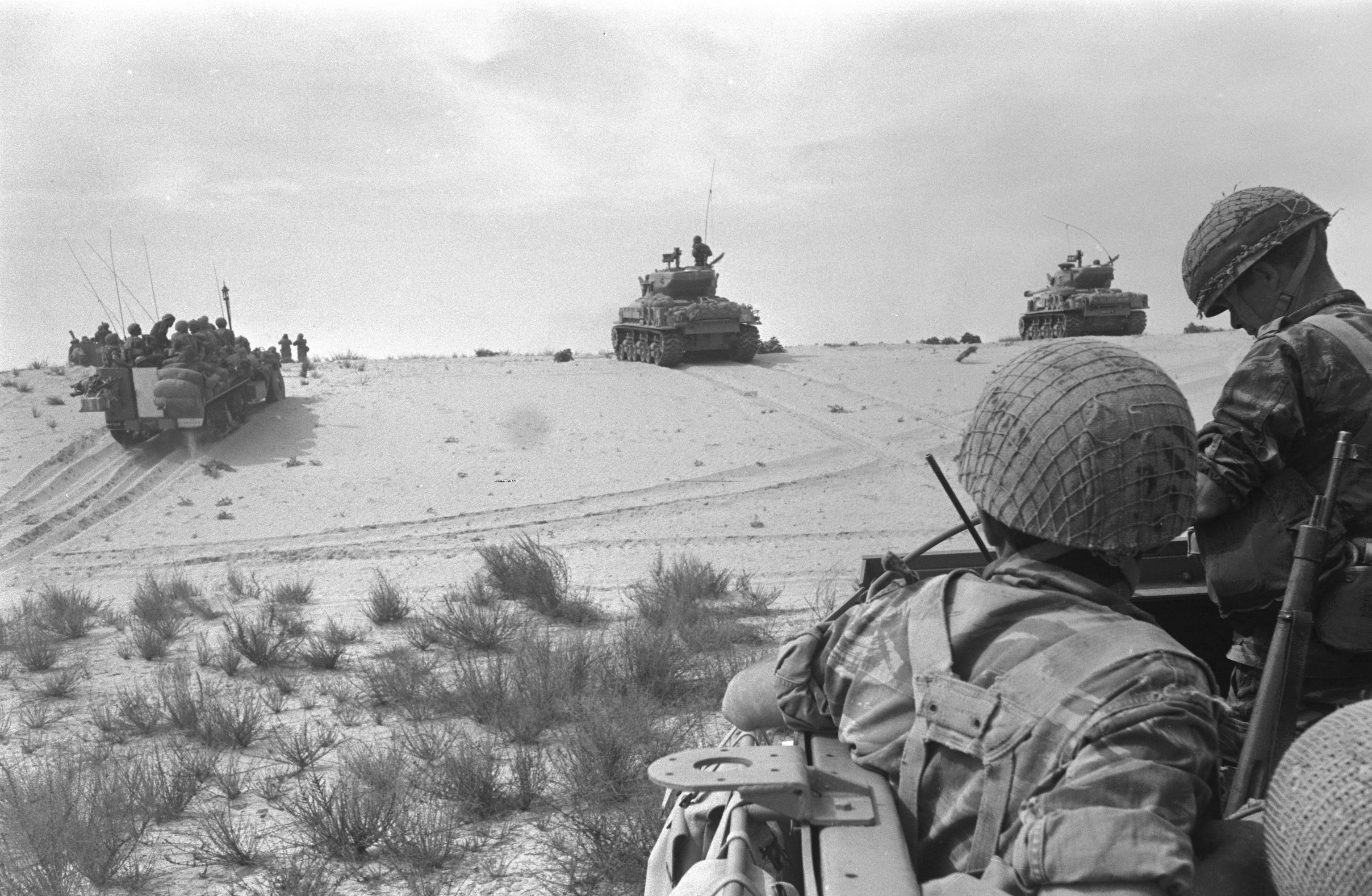 SIX DAY WAR. ISRAELI ARMOUR PREPARING FOR ACTION ON THE OUTSKIRTS OF RAFA.